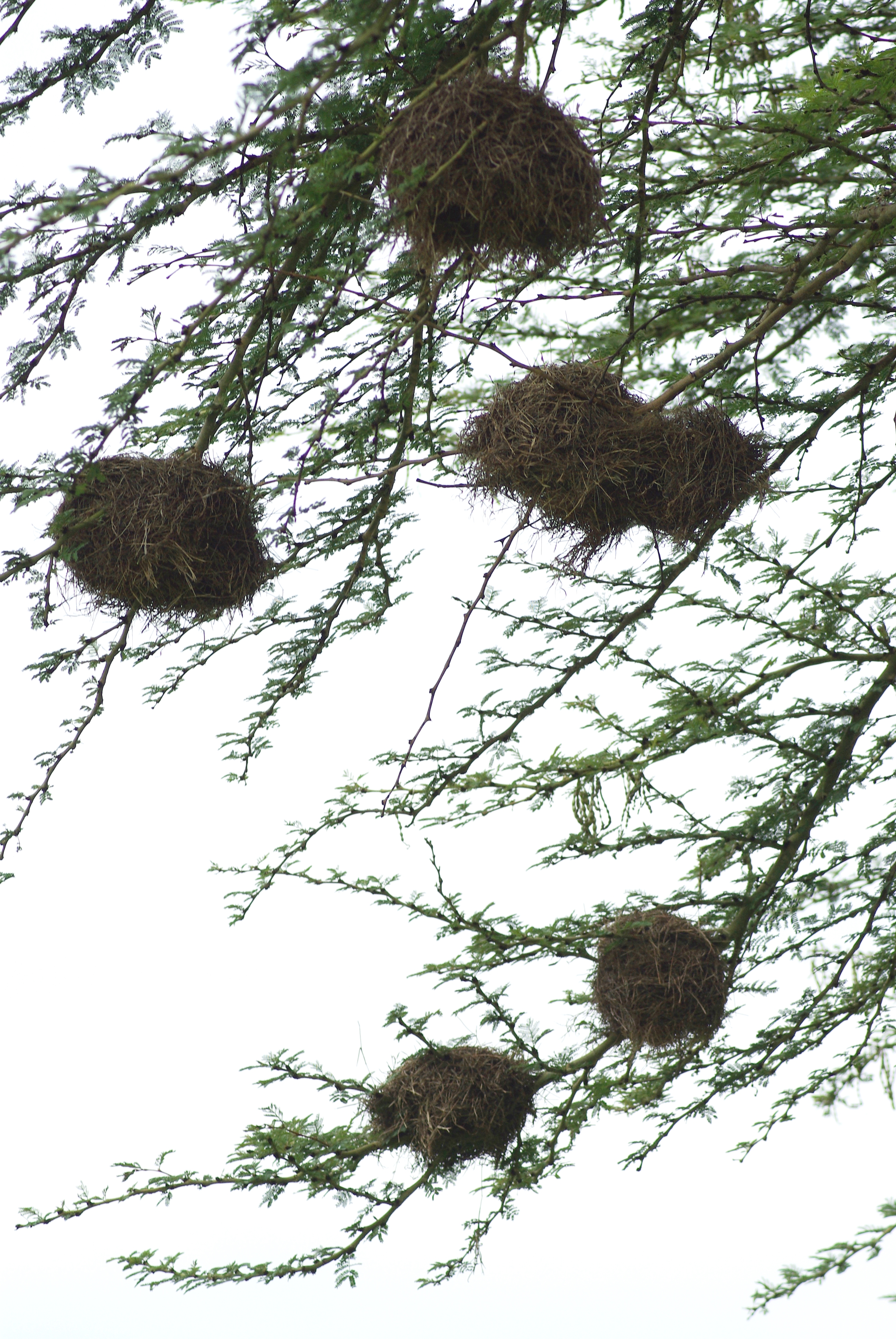 Nests of Pseudonigrita arnaudi arnaudi, Grey-capped Social Weaver, Sweetwaters Tented Camp, Kenya. The time stamp is 10 hours too early.